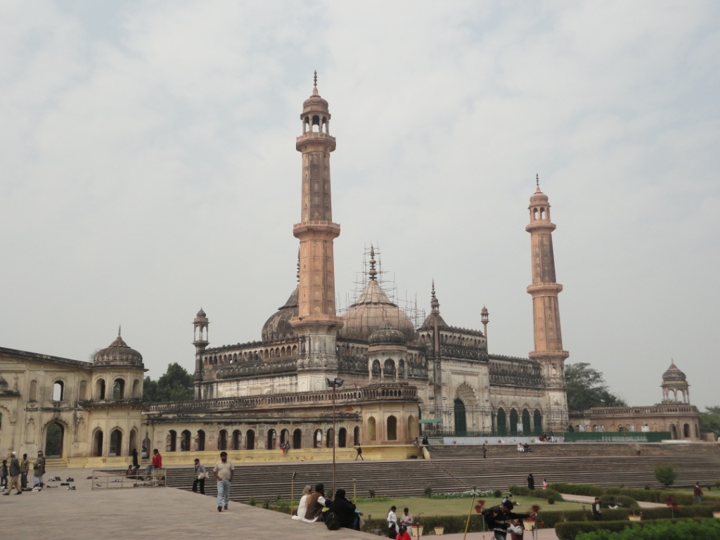 Masjid, Bada Imambada, Lucknow, India